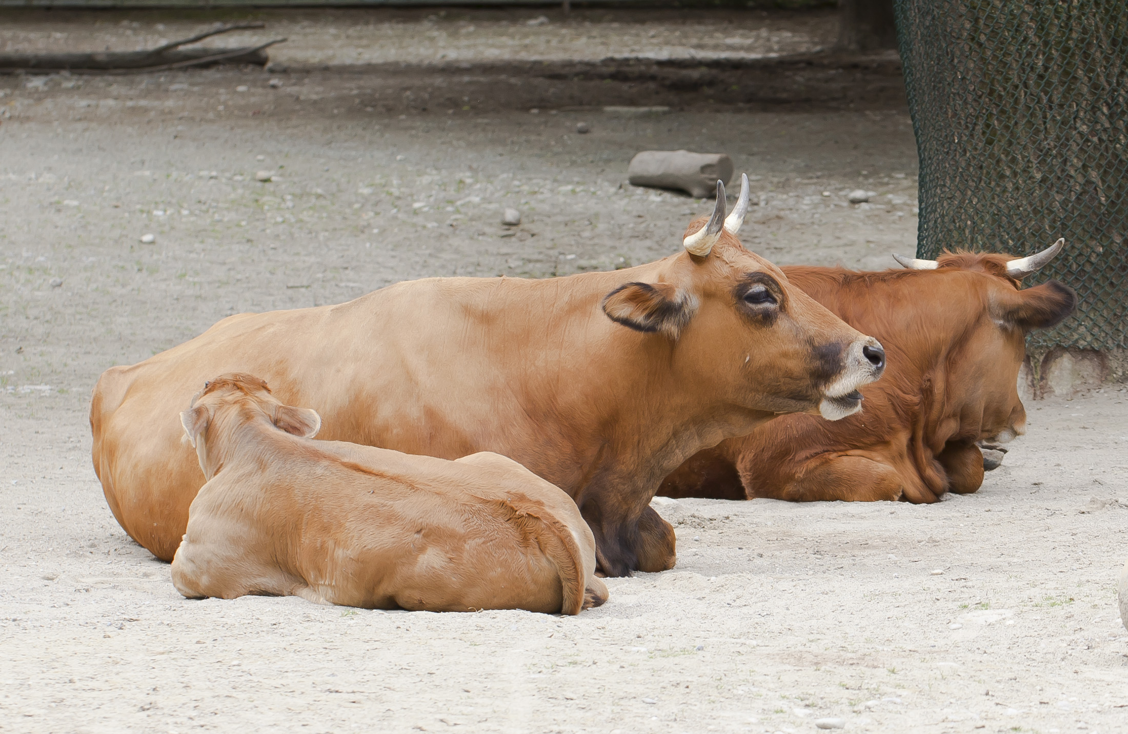 Cow (Bos primigenius taurus), Tierpark Hellabrunn, Munich, Germany